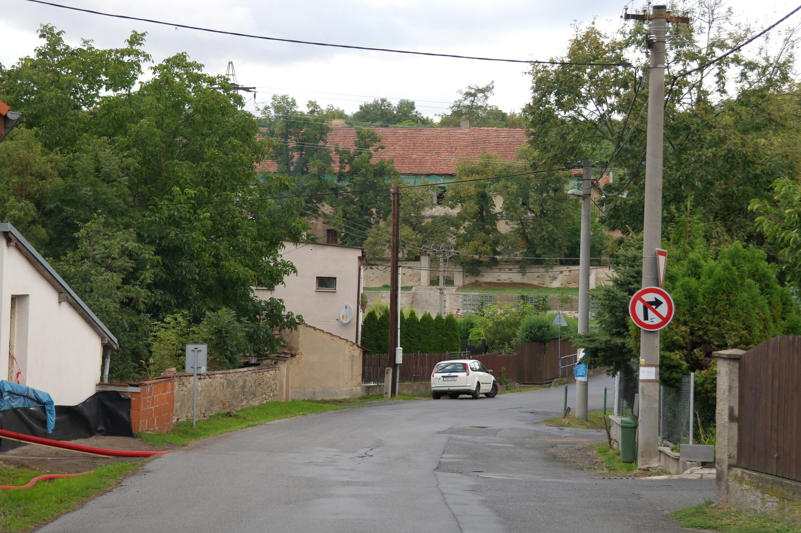 Statenická str., Statenice, Prague-West District. Statenice castle at the background.